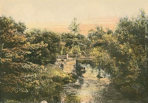 The Mill Hill Road Bridge, Madbury, New Hampshire